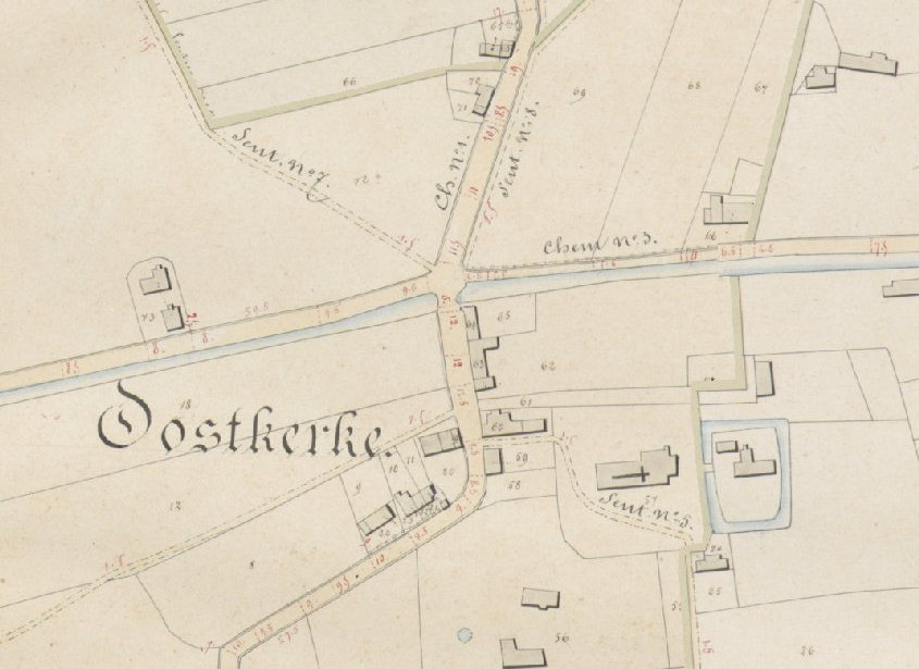 Extract from the "Atlas der Buurtwegen" / "Atlas des chemins vicinaux" (1841) with the former village center of Oostkerke. Oostkerke, Diksmuide, West Flanders, Belgium